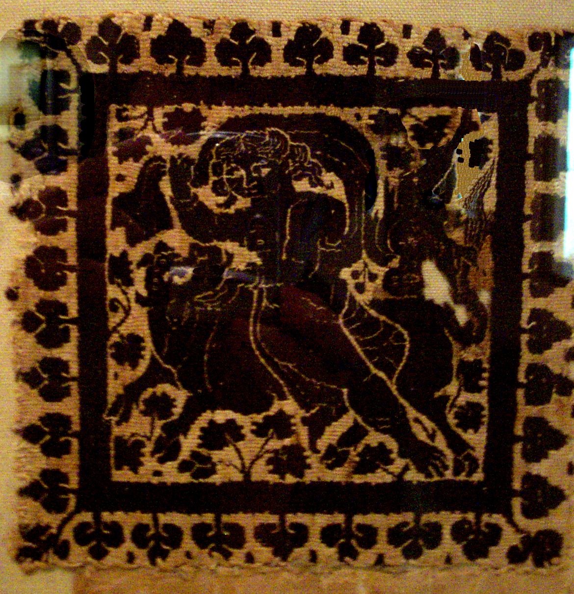 photograph of ancient textile of Zeus in the form of a bull carrying away the maid Europa. Textile fragment currently in Dumbarton Oaks Museum, Washington, D.C., U.S.A.